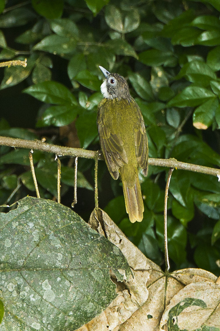 A Red-tailled Greenbul, other name: White-bearded Greenbul, (Criniger calurus) in the Kakum National Park (Ghana)